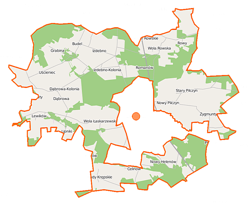 Map of Gmina Łaskarzew, Poland This map of Łaskarzew (gmina wiejska) was created from OpenStreetMap project data, collected by the community. This map may be incomplete, and may contain errors. Don't rely solely on it for navigation. Border coordinates51.855321.4669←↕→21.695351.7383